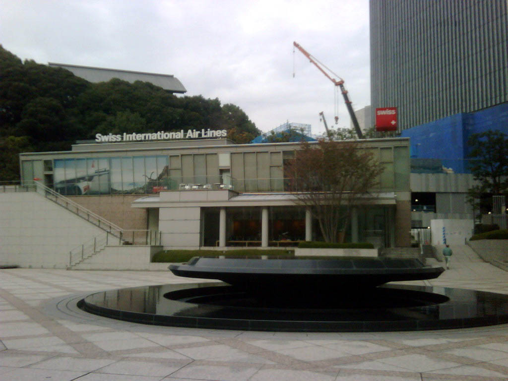 Sanno Park Tower Annex - Has the Swiss House, the Japanese offices of Swiss International Air Lines